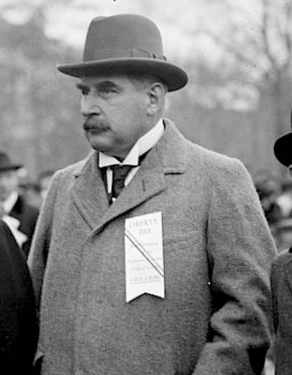 Cropped photograph of J.P. Morgan Jr. at a 1917 war bond parade. Liberty Day ribbon: October 24, 1917, was declared by President Woodrow Wilson as Liberty Day